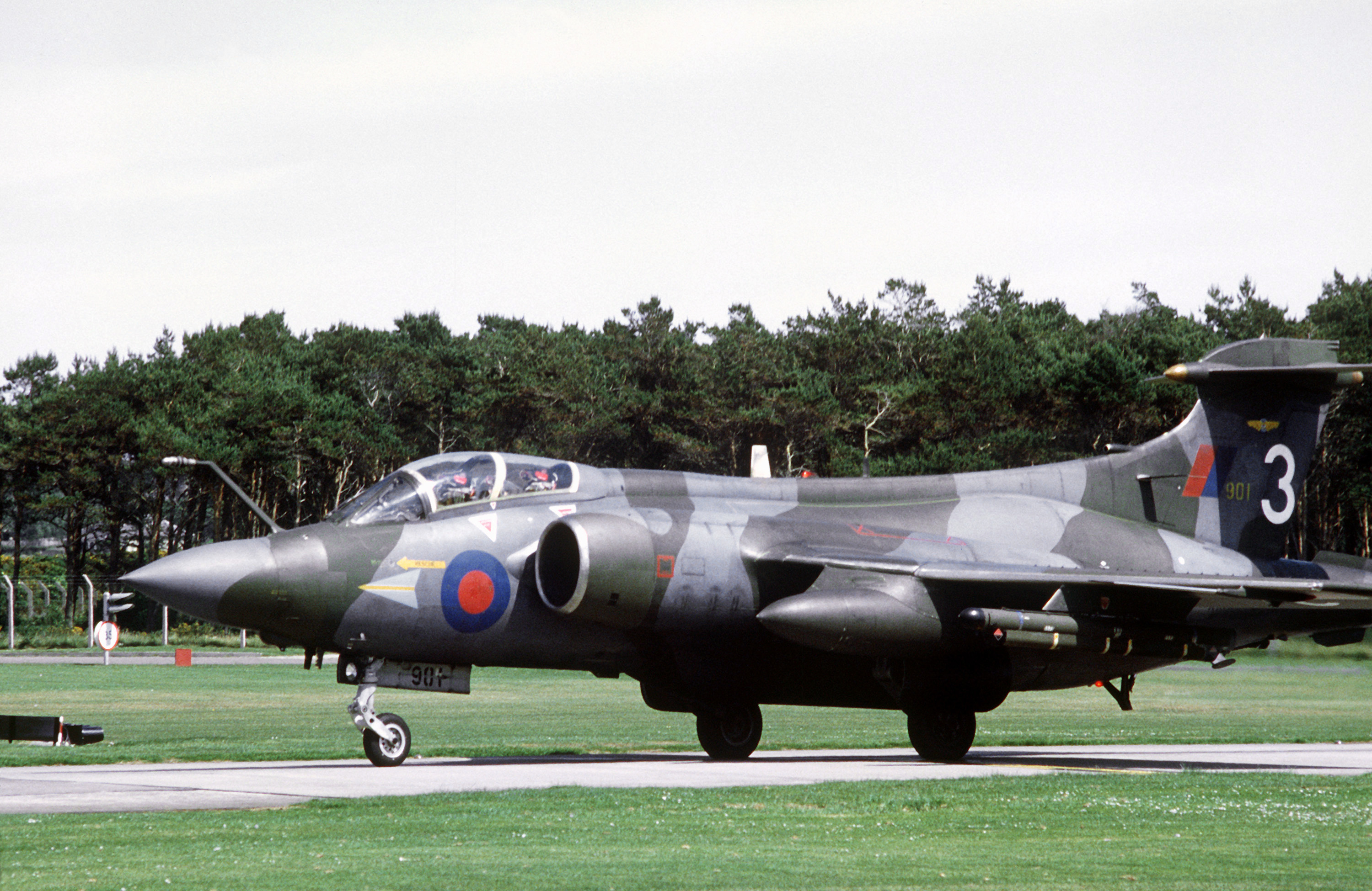 A parked Royal Air Force Hawker Siddleley Buccaneer S.2B aircraft during the 1981 RAF Strike Command Bombing Competition that was held between the United States and Royal Air Forces.